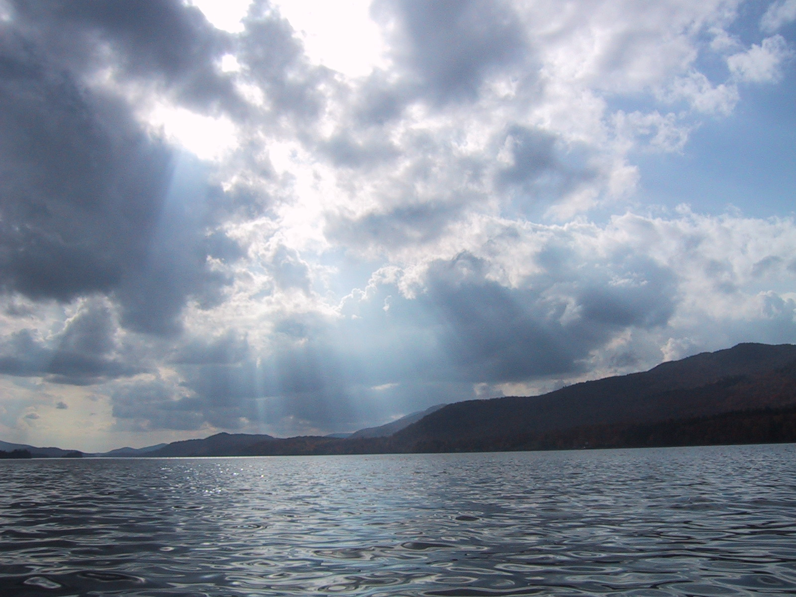 The sun coming in through the clouds on Indian Lake in upstate New York.